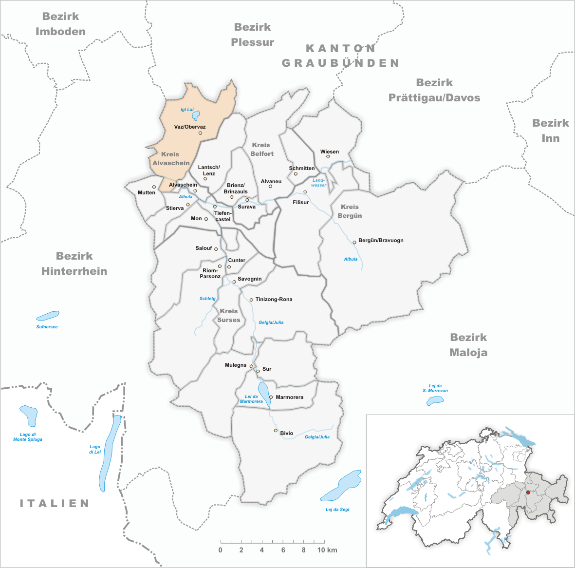 Municipality Vaz Obervaz